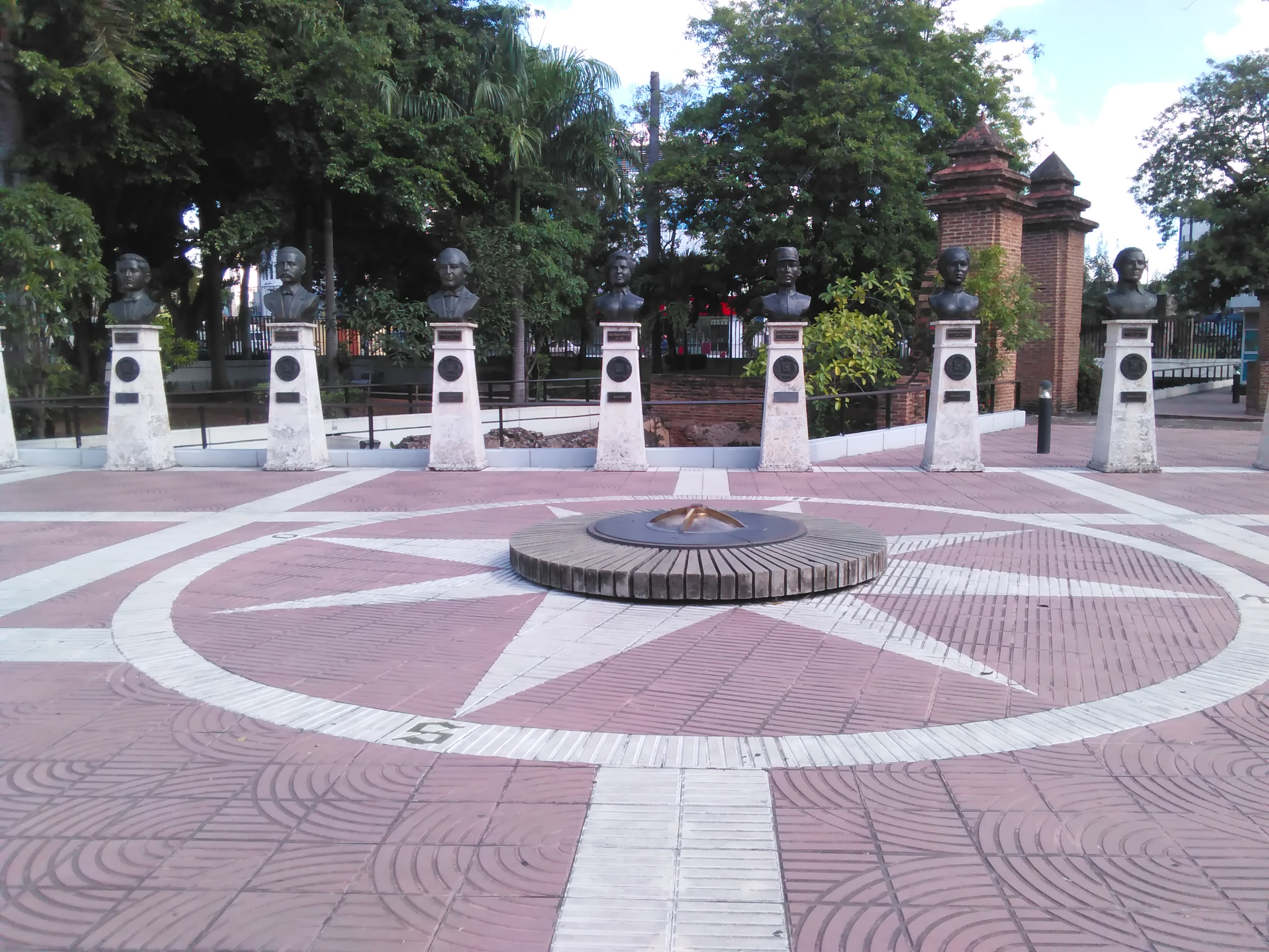 Km 0, Dominican Republic